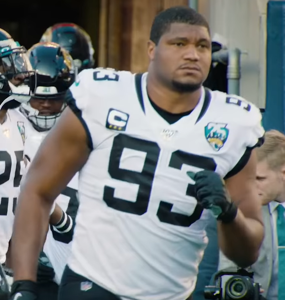 Calais Campbell 2019. Image from video Titans Mic'd Up vs. Jaguars (Week 12) | Sounds of the Game, ~ 00:25